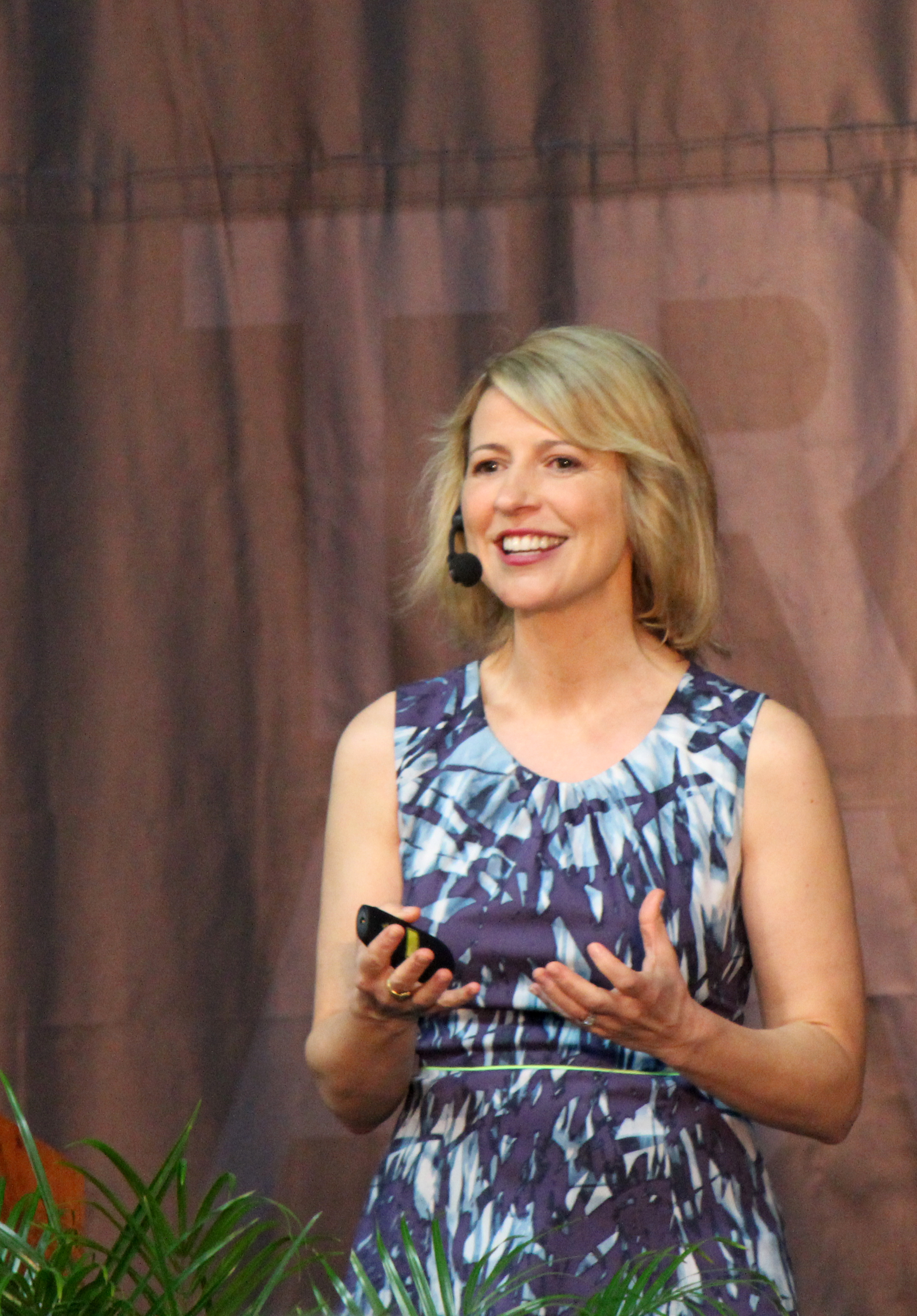 Samantha Brown speaking at the San Diego Travel & Adventure Show at the San Diego Convention Center.